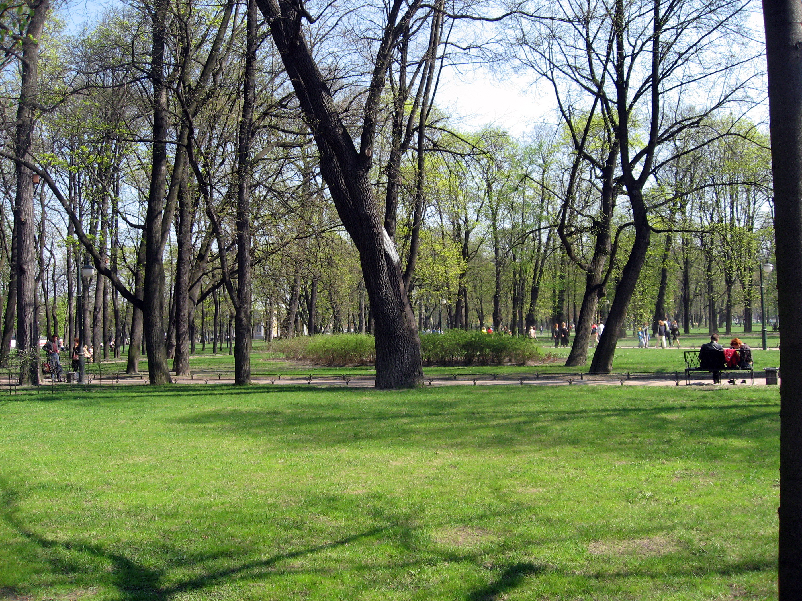 Saint Petersburg (Russia), Mikhailovsky Garden